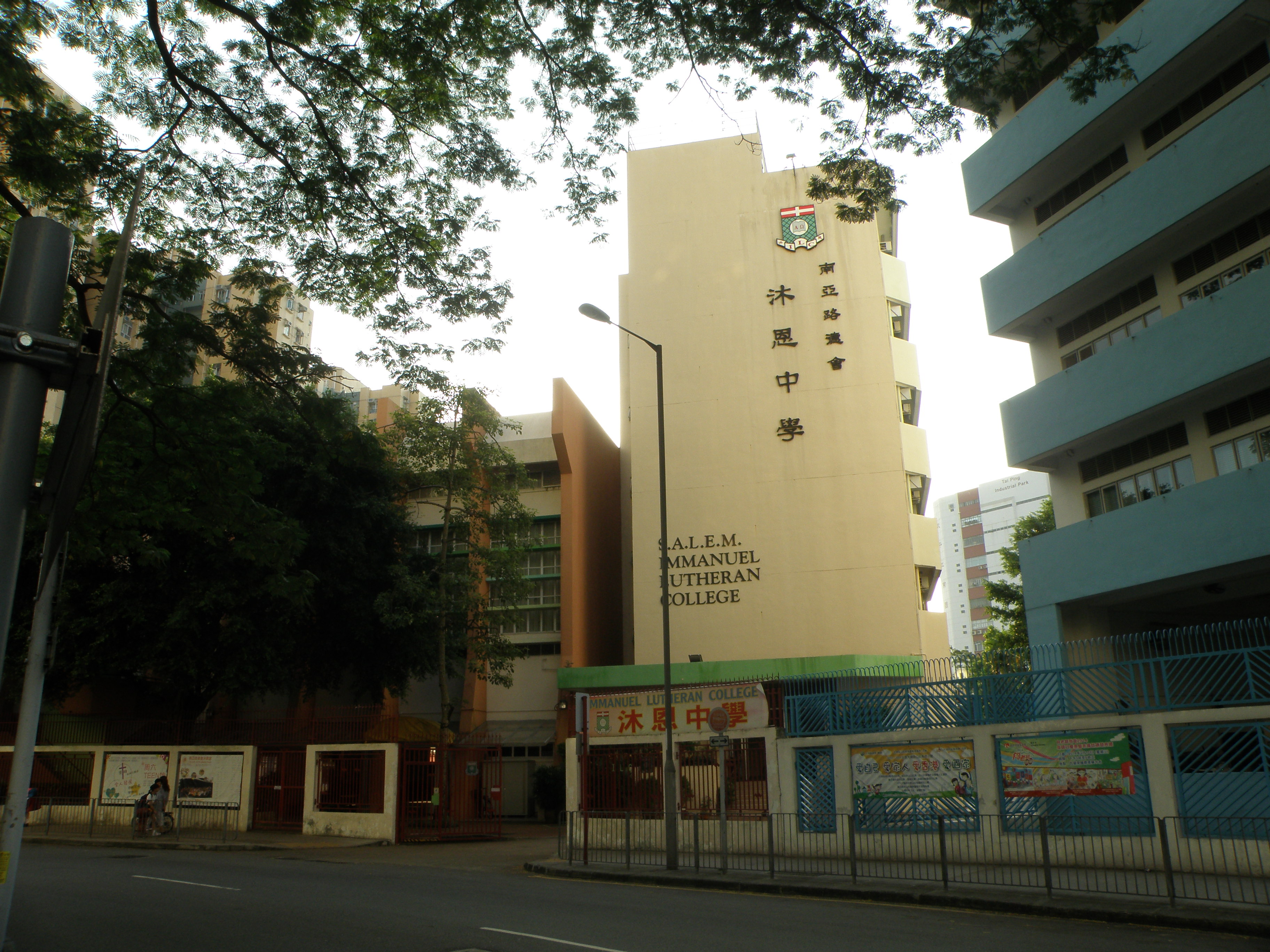 S.A.L.E.M. Immanuel Lutheran College in Tai Po, Hong Kong.